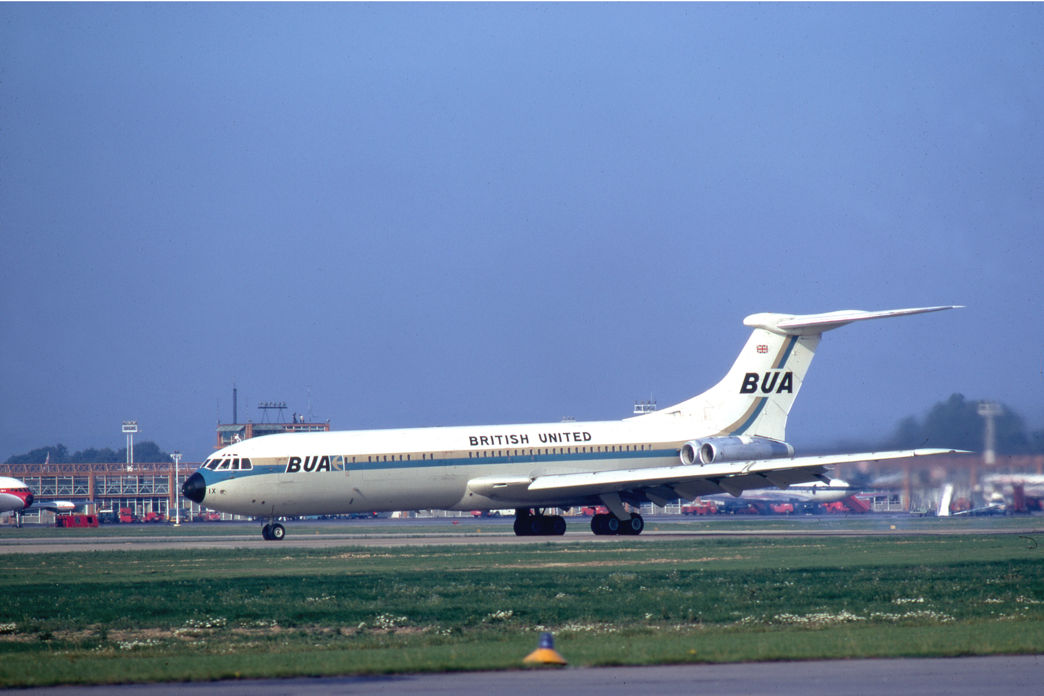 British United Airways Vickers VC10 (G-ASIX) at London Gatwick Airport